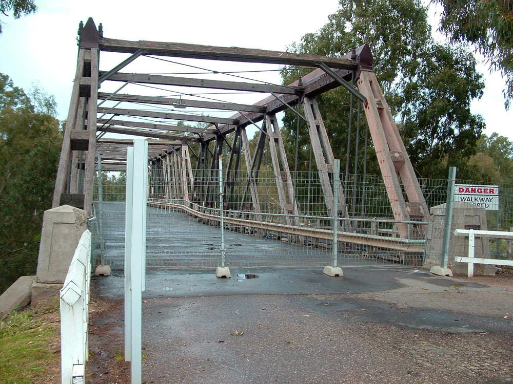 Hampden Bridge entrance, Wagga Wagga, New South Wales